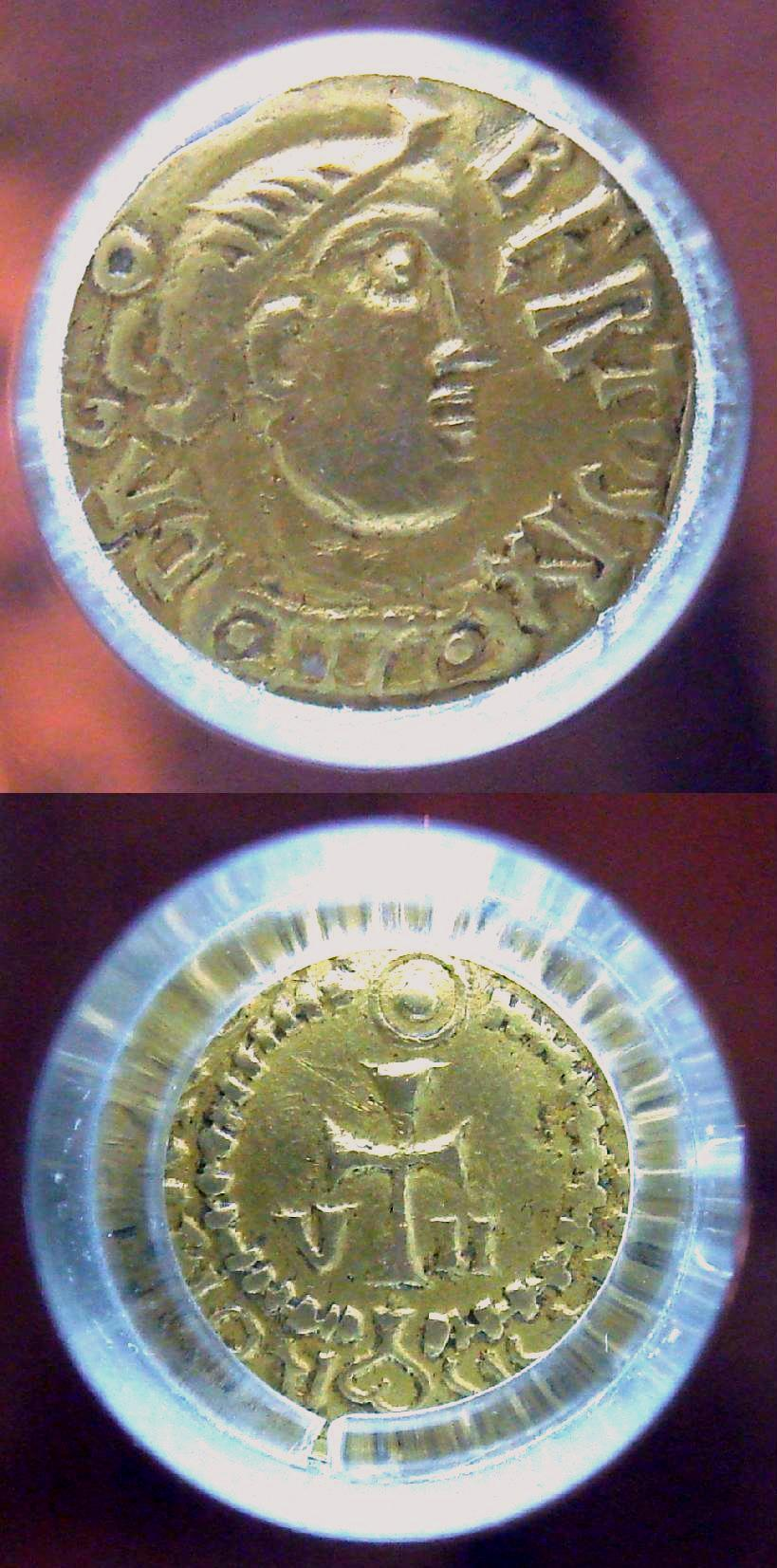 Dagobert_I_and_Romanos_monetaire_triens_Augaune_629_639_1320mg